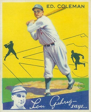 1934 Goudey baseball card of Ed Coleman of the Philadelphia Athletics #28. PD-not-renewed.